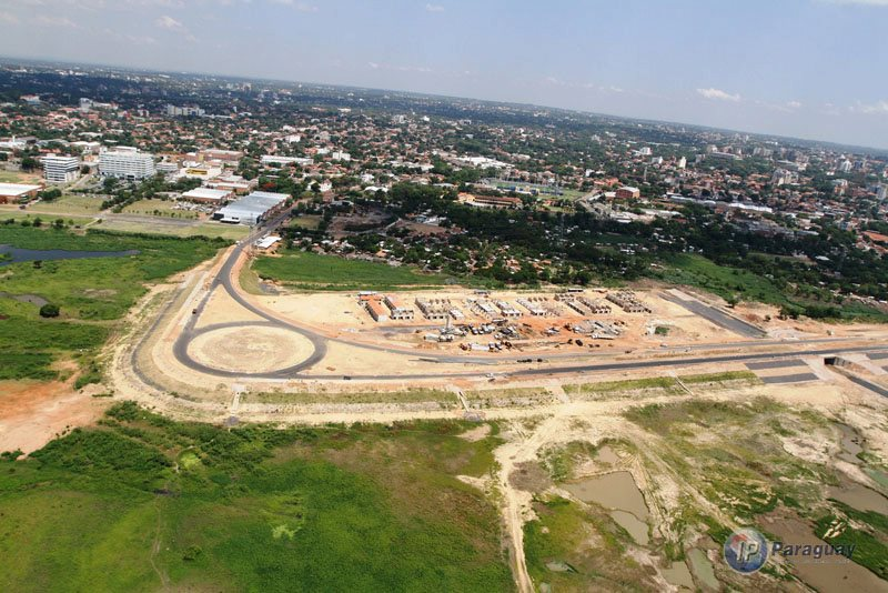 the view to the new avenida costanera in asuncion